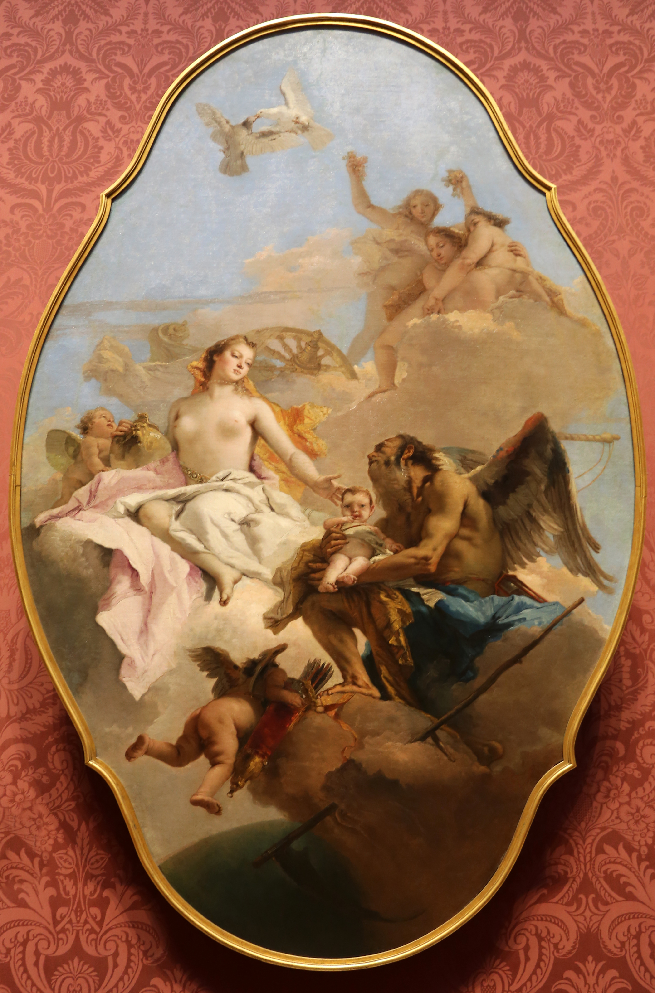 Italian Rococo paintings in the National Gallery, London